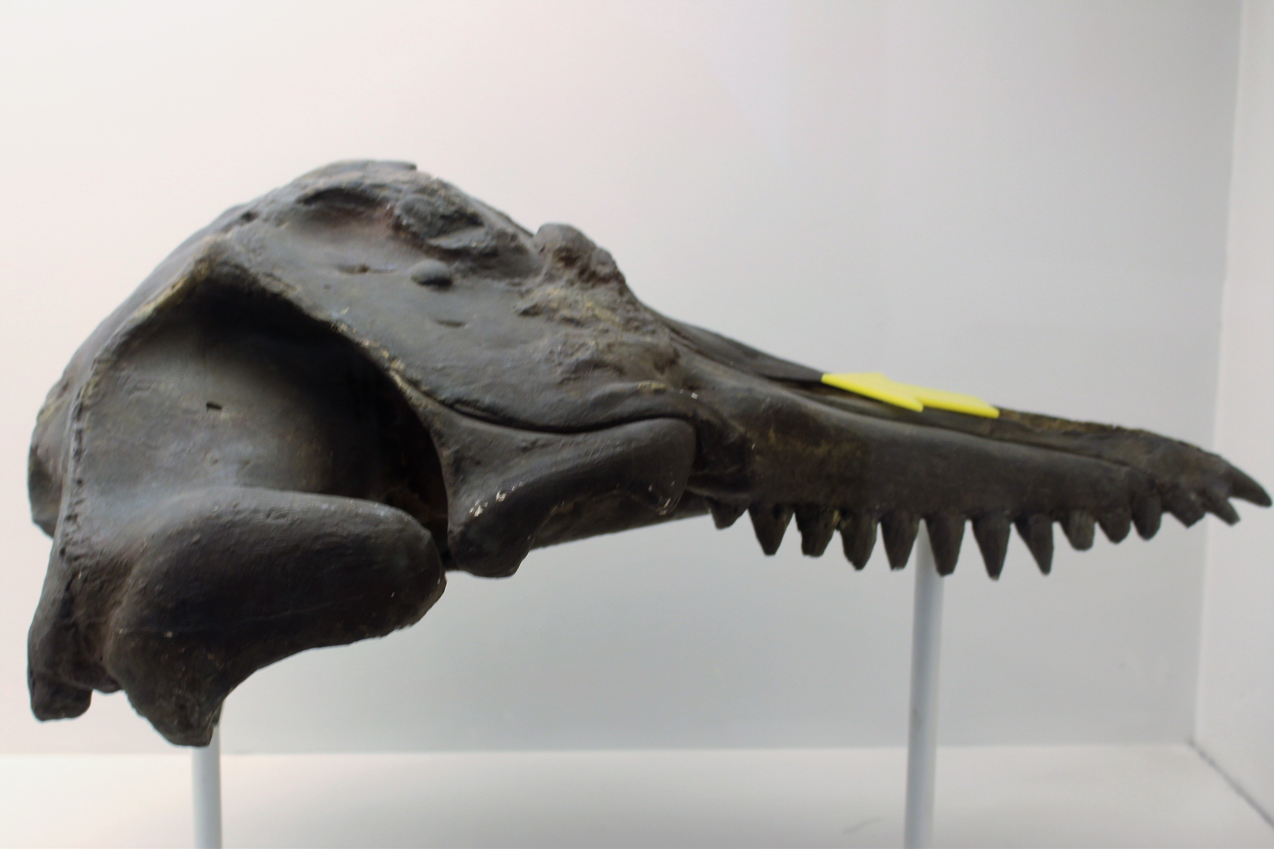 Prosqualodon davidis skull at the Natural History Museum in London, England.